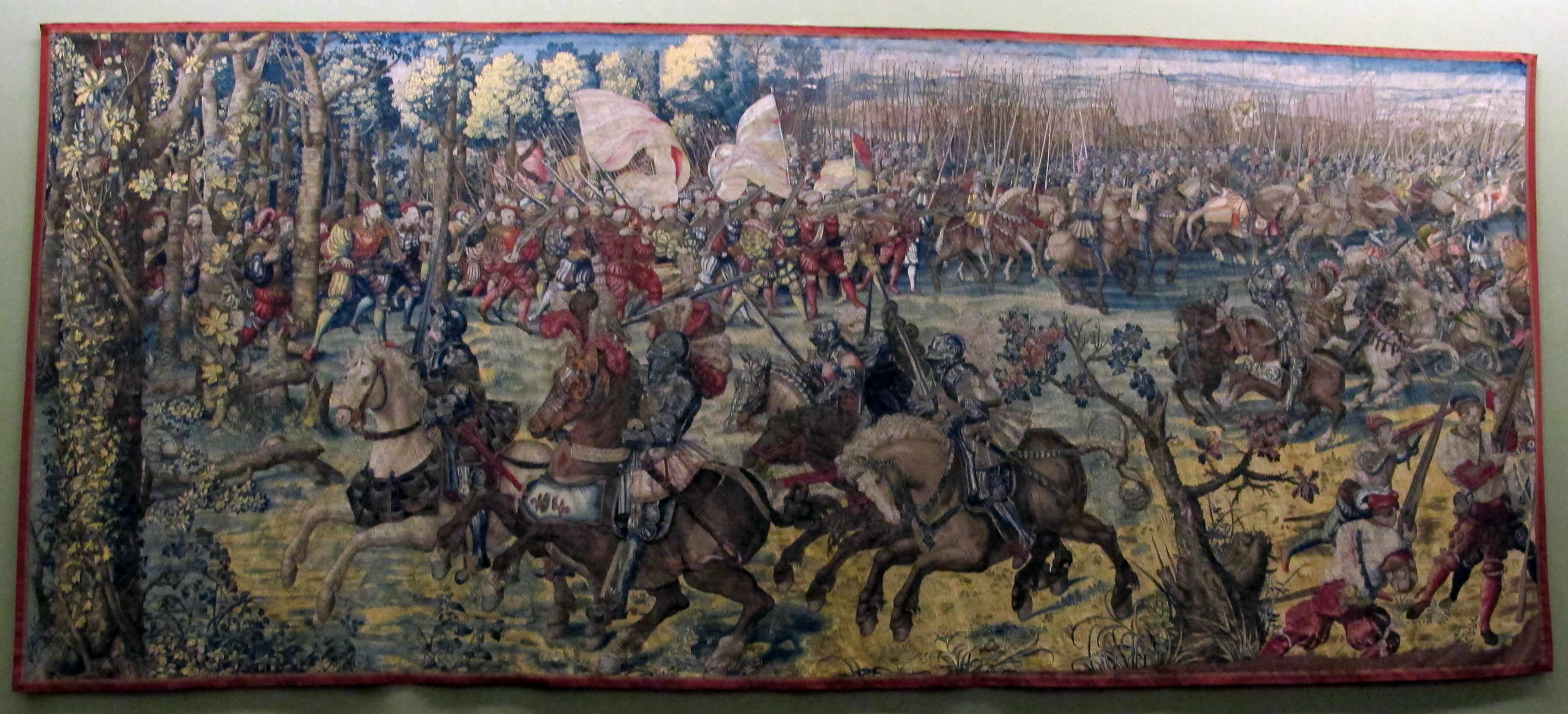 manufactured in Bruxelles